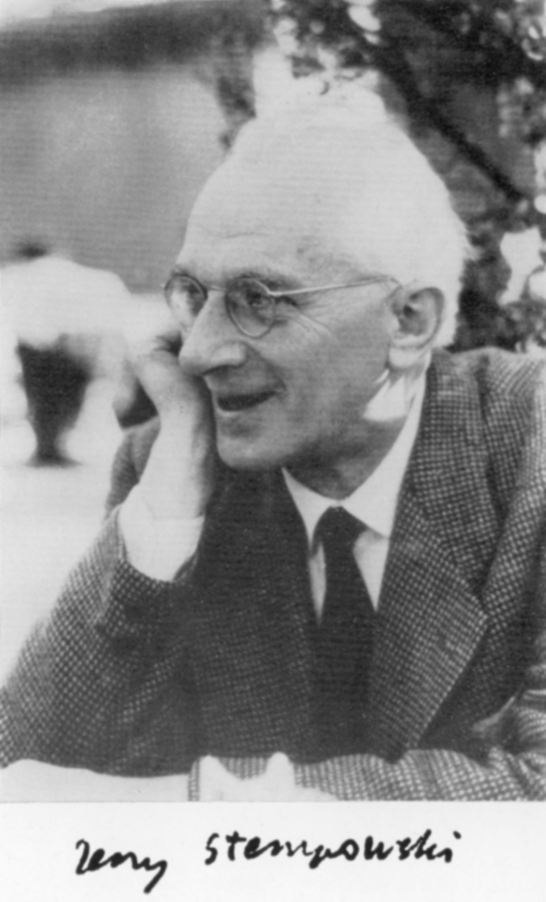 Jerzy Stempowski (1893-1969) - a Polish essayist and literary critic.